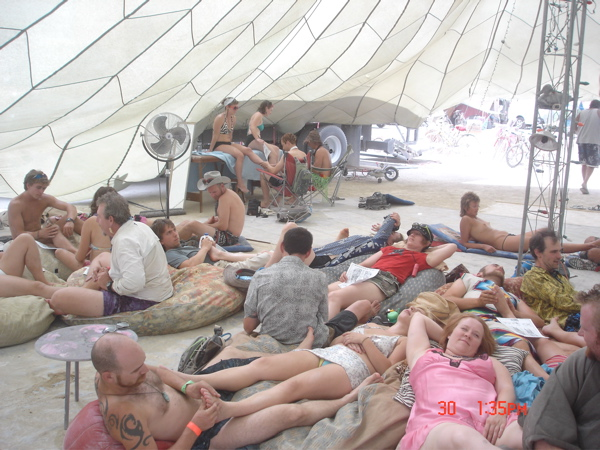 Foot rubbing at Burning Man 2007